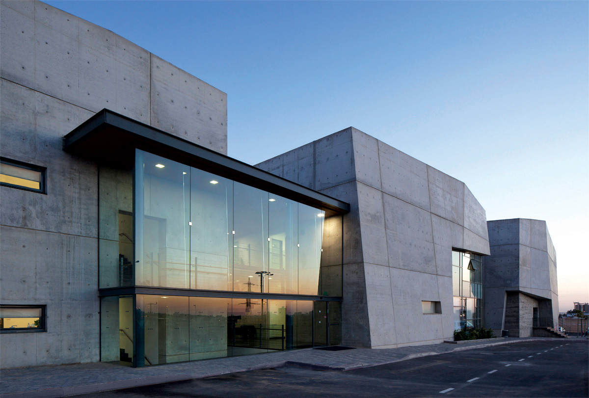 basketball-foxTeam-place